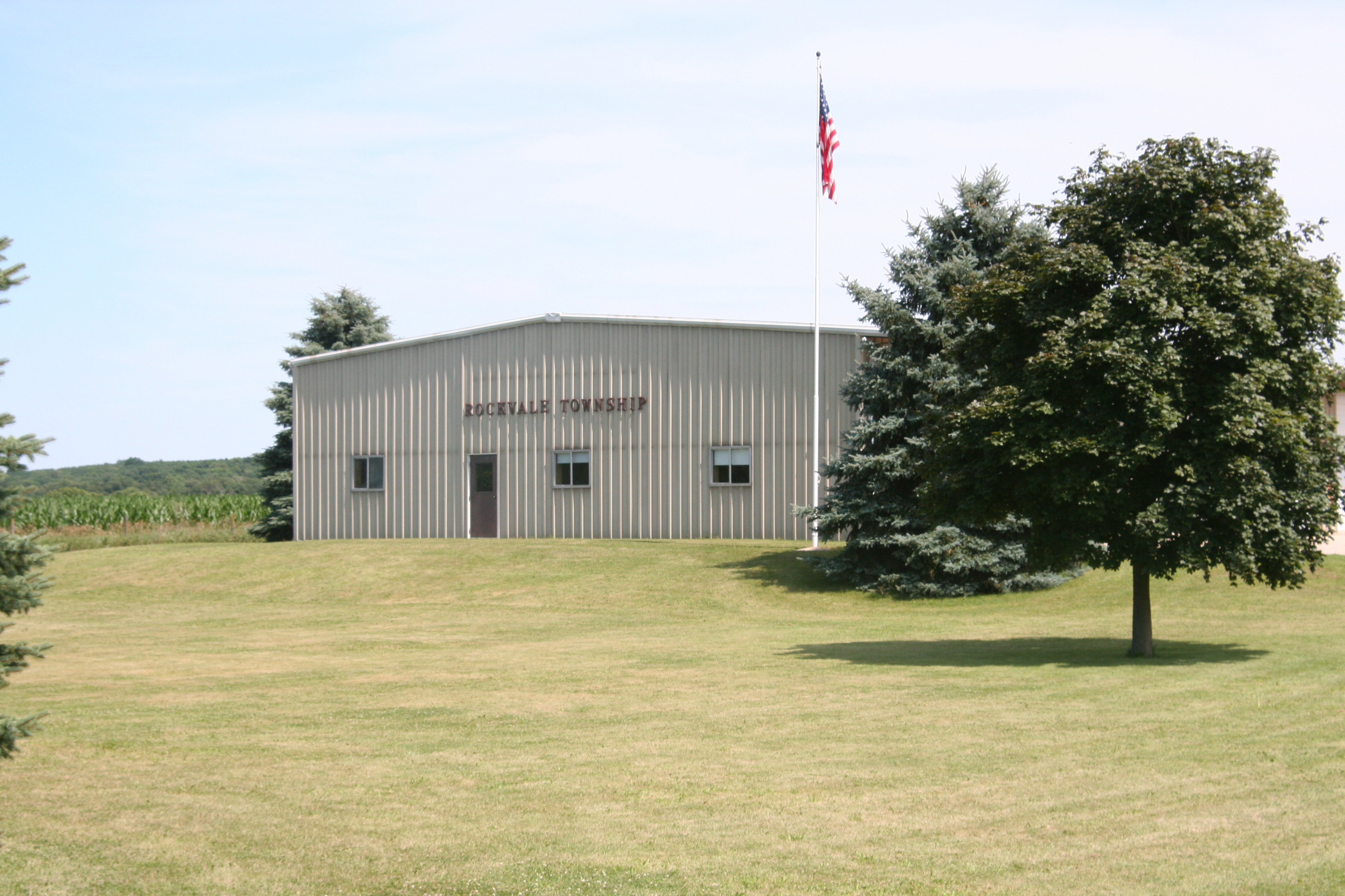 Rockvale Township building in Ogle County, Illinois along Rt. 2.